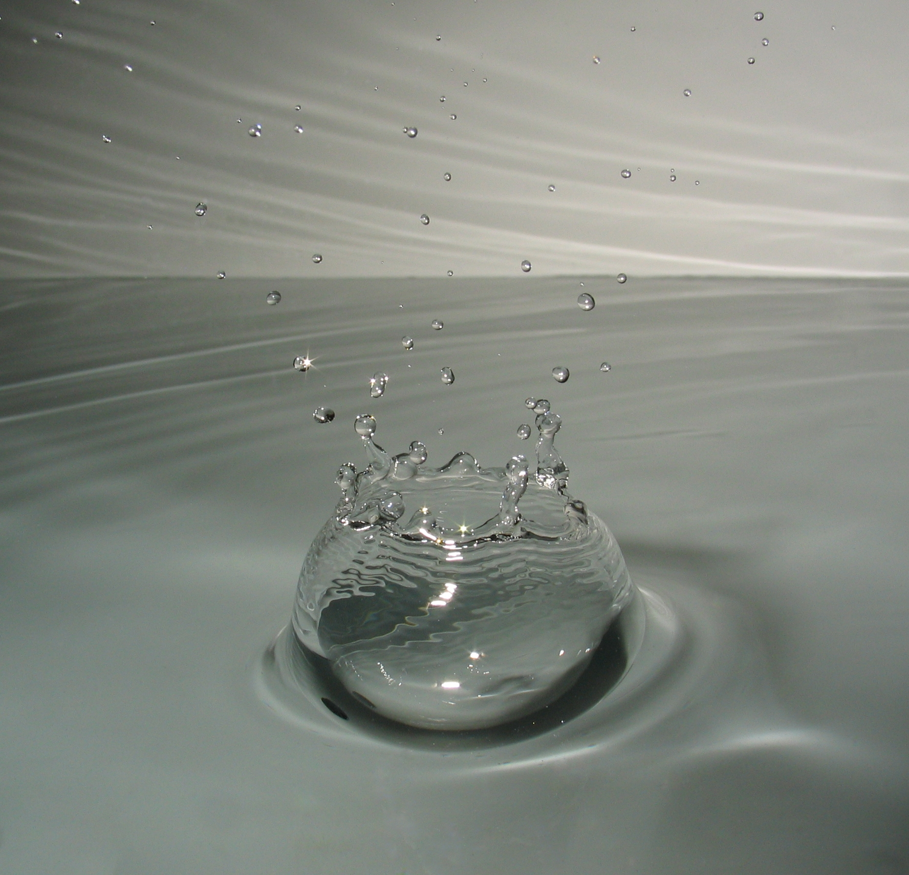 Impact of a drop of water on a water-surface.